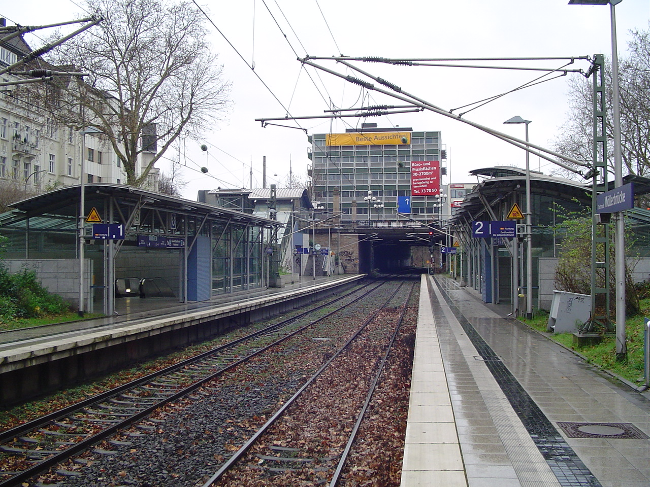 Dortmund Möllerbrücke S-Bahn stop, Germany